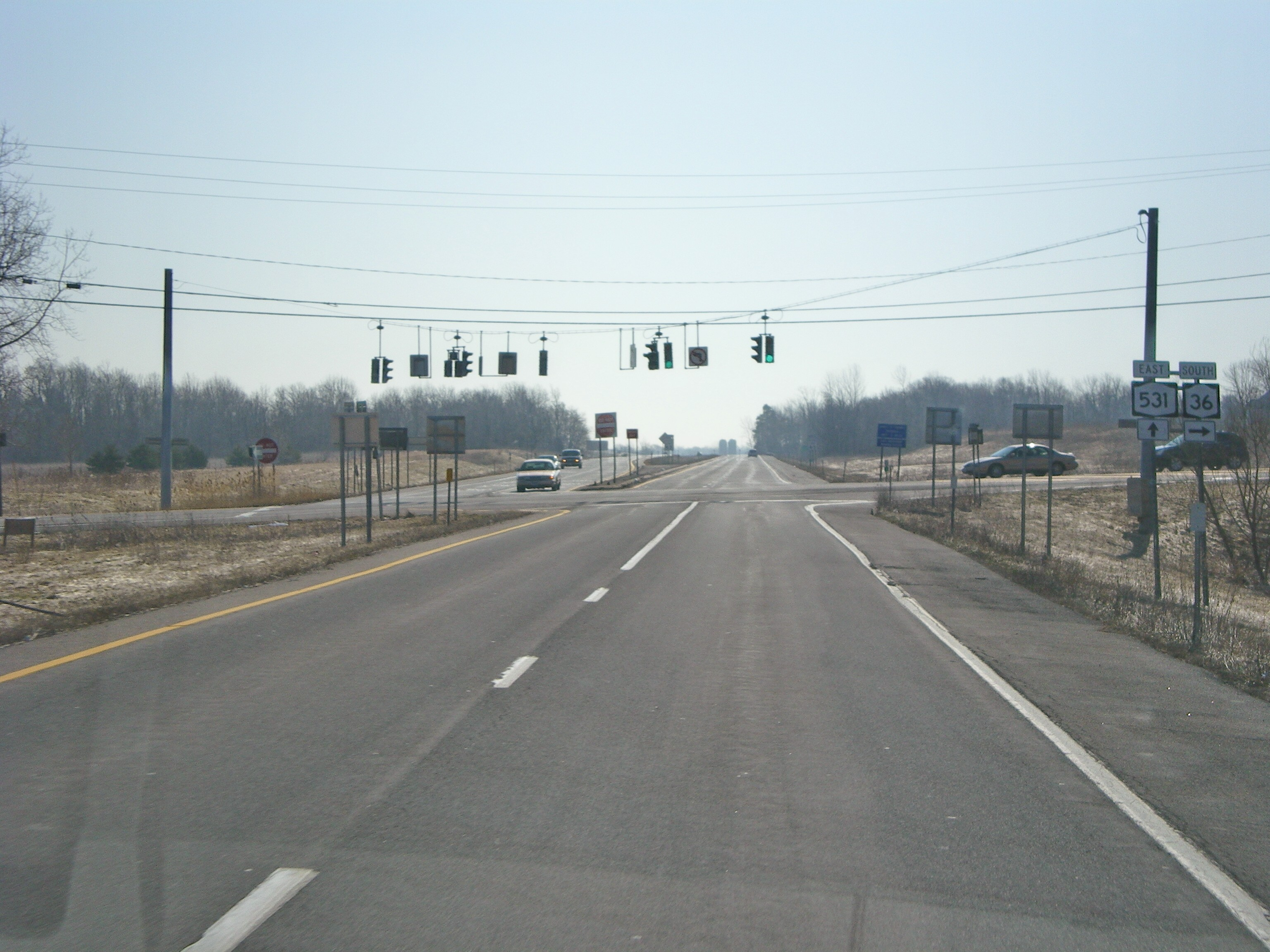 The western terminus of New York State Route 531 at New York State Route 36 as seen from NY 531 eastbound.